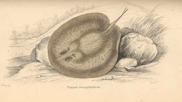 Paratrygon ajereba syn. Trygon strongylopterus